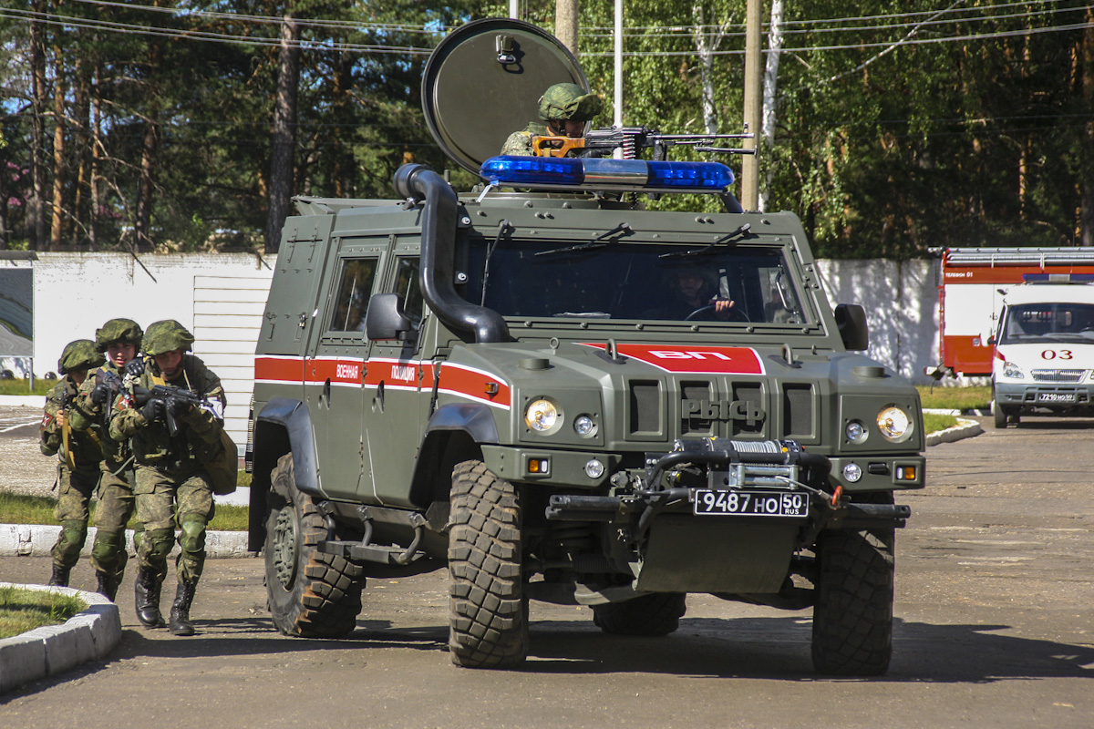 Russian Military Police special exercise in Mulino.